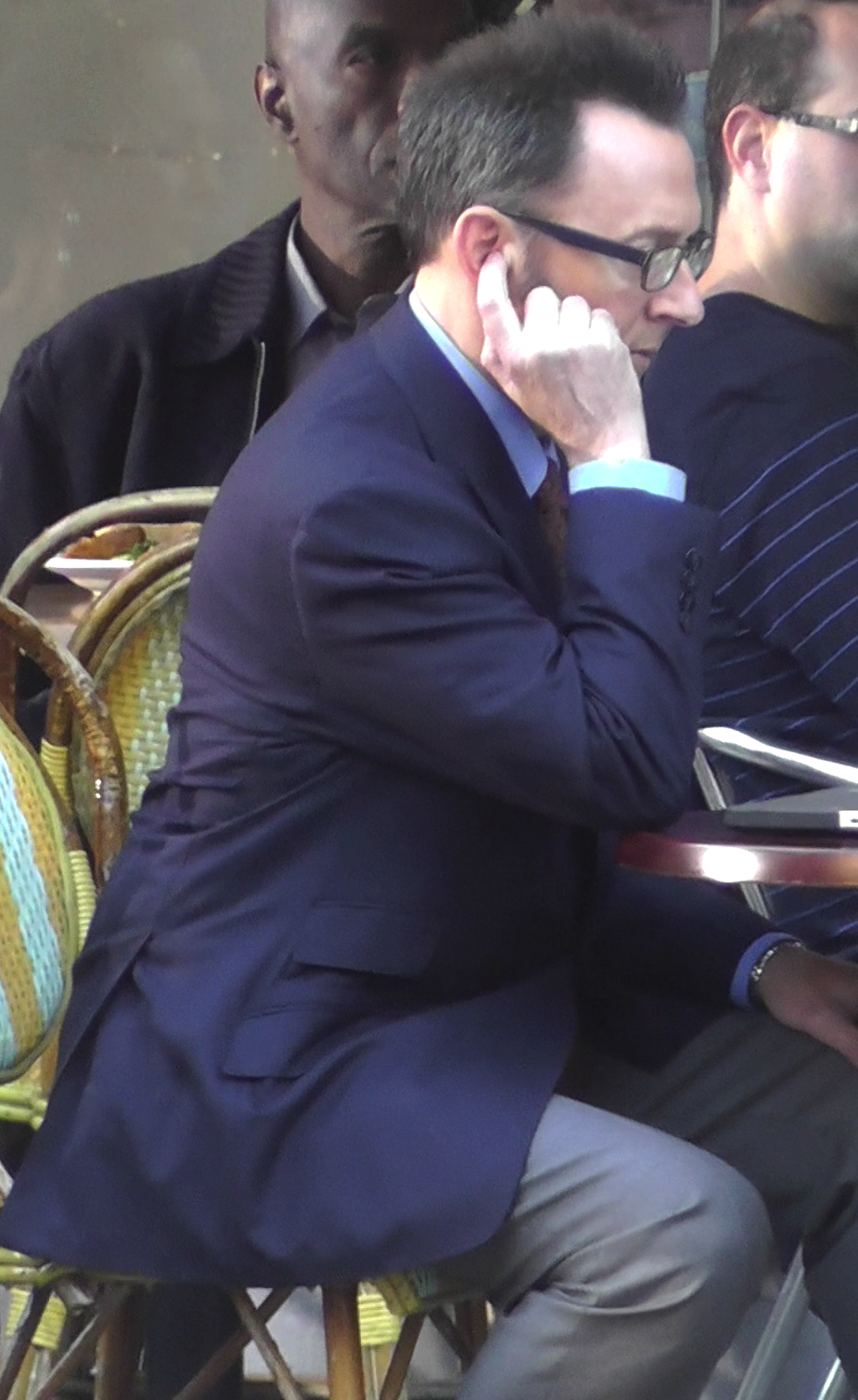 Michael Emerson in NYC shooting Person of Interest